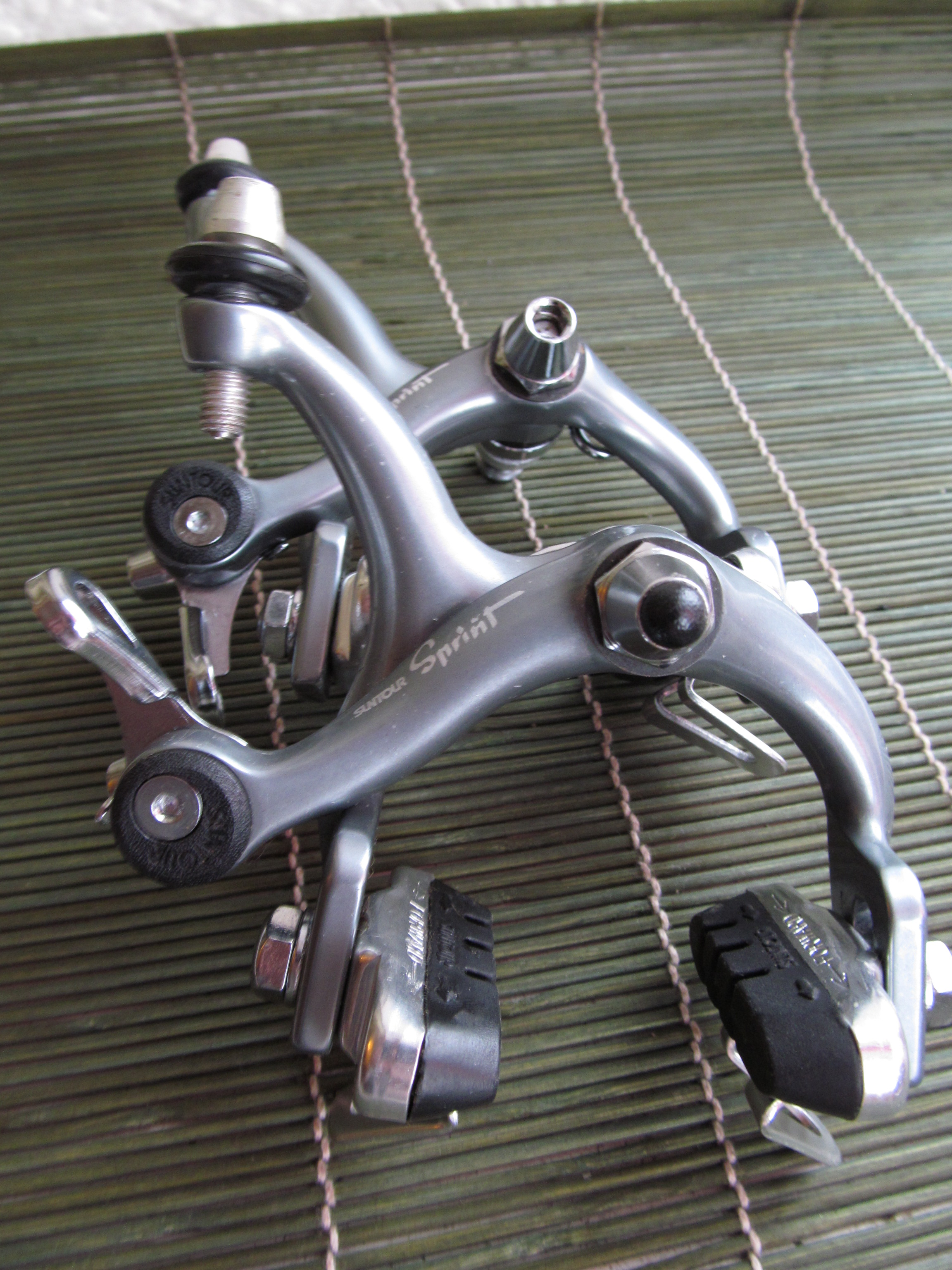 A pair of road bicycle caliper brakes, manufactured by Suntour, branded as part of the Sprint gruppo. The photographer tags the original image as 1986.